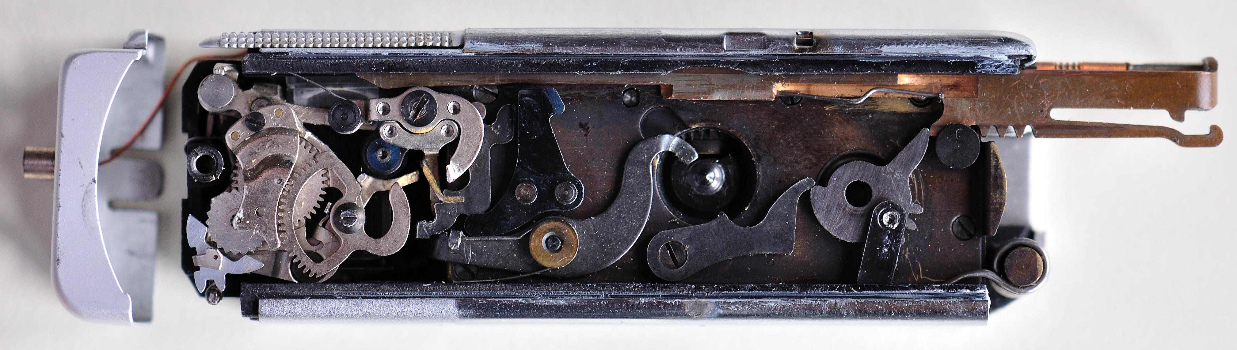 Look inside the Minox B. Left ist the Timer mechanic, next comes the release Lever, the large curved lever ensures the parallax of the viewfinder. Below the opening for the focusing is a lever which ensures that there is always an equal amount of unexposed web between two photographs remains. Made from Copper ist the repeating rod.